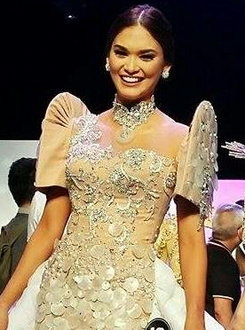 Pia Wurtzbach, Miss Universe 2015 from the Philippines.